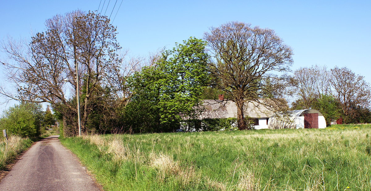 One af the last houses from the village Lidtgodthuse east of Roskilde, Denmark